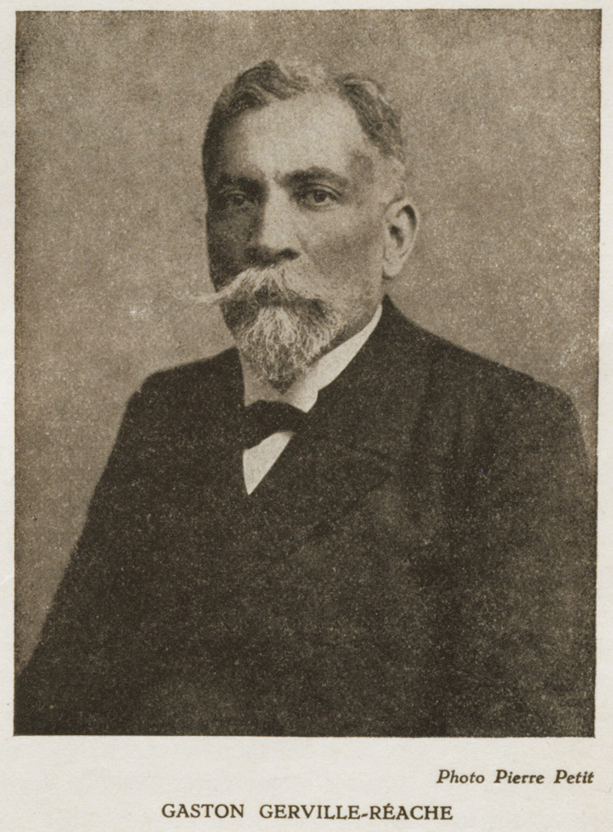 Picture of Gaston Gerville-Réache